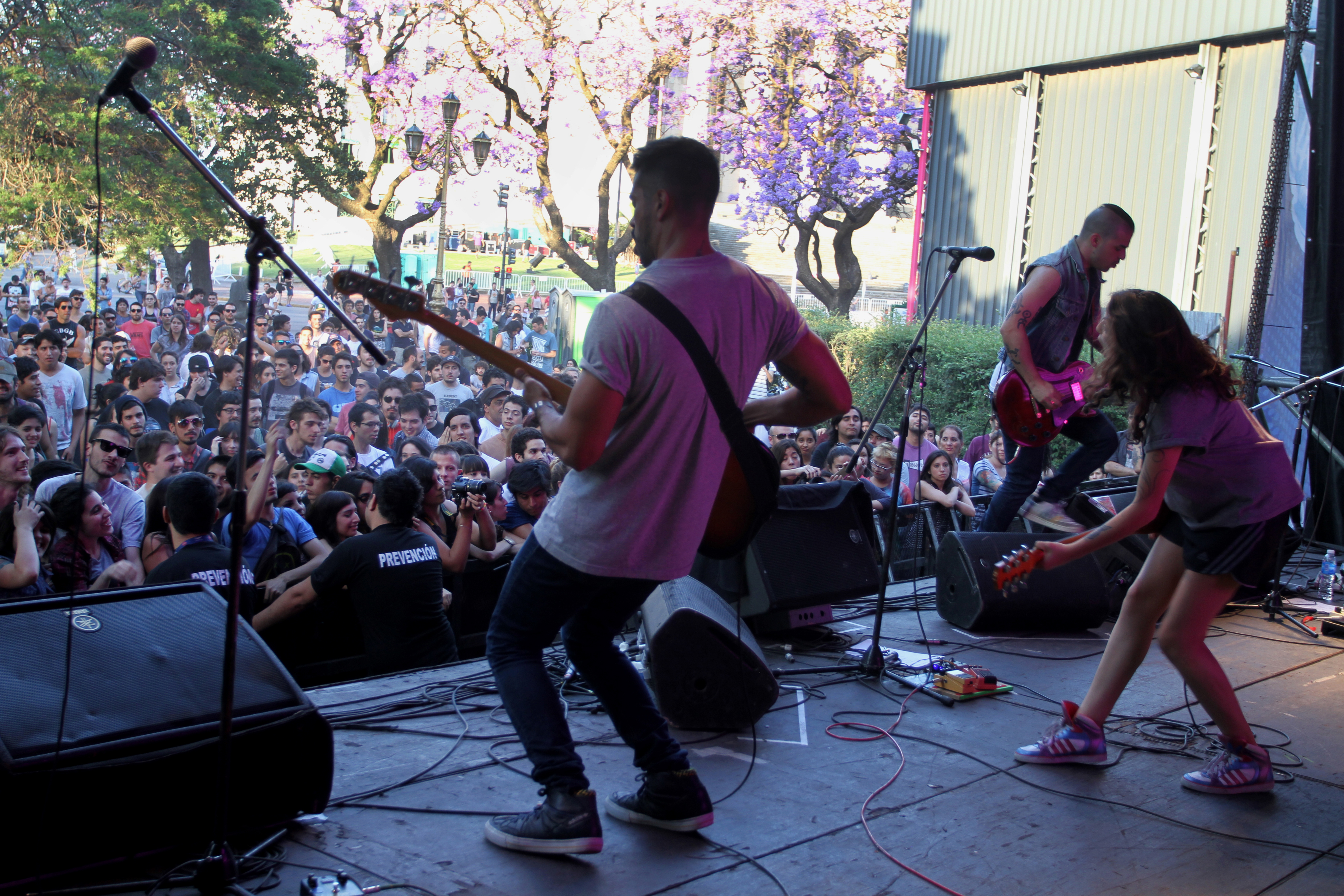 Futurock- sabado 15 de Noviembre. Banda Utopians en el escenario principal.